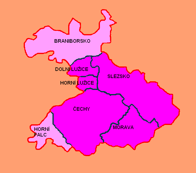 Czech Crown lands under Charles IV (14th century) Původně/Originally Image:Koruna česká KAREL IV.PNG